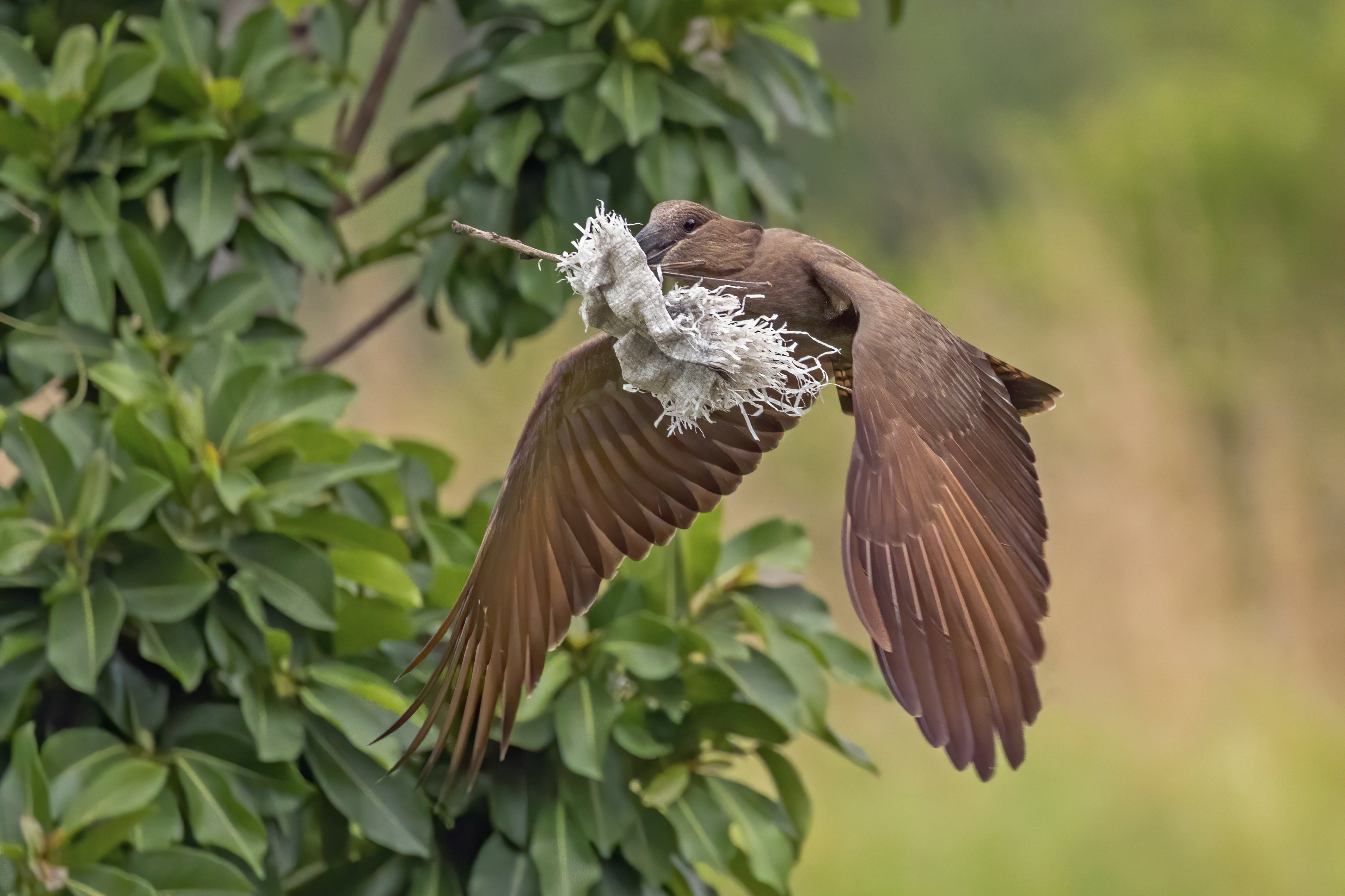 Hamerkop (Scopus umbretta umbretta) collecting for nest, Queen Elizabeth National Park, Uganda